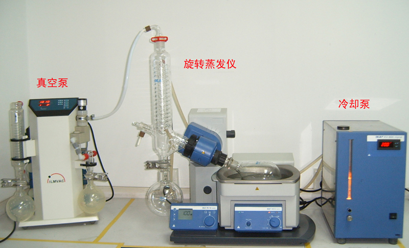 Rotary evaporator, Guangzhou, China, 2009